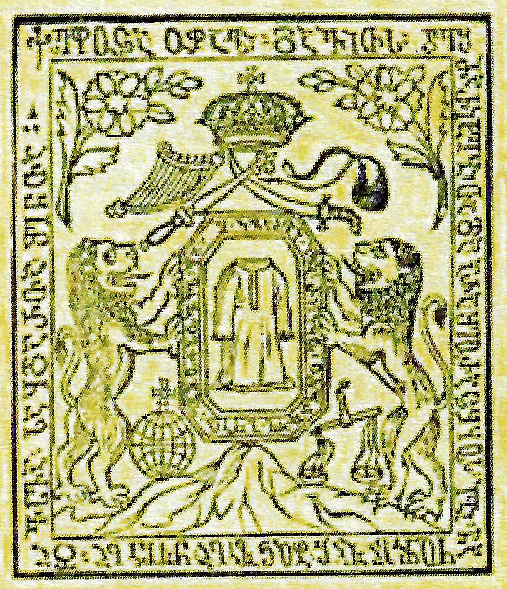 coat of arms of kingdom of Georgia depicting Holy Tunic, 1711